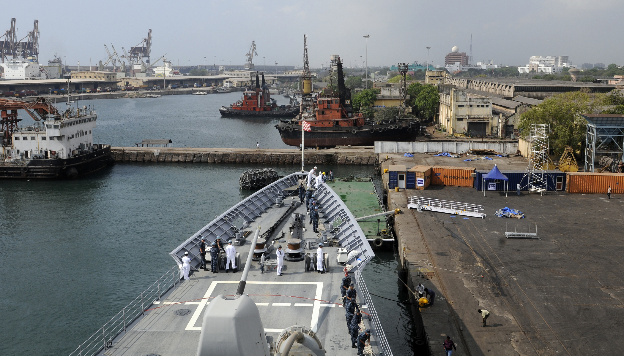 CHENNAI, India (April 7, 2012) The guided-missile cruiser USS Bunker Hill (CG 52) is moored pier side in Chennai, India, in support of Malabar 2012. Malabar is a naval field training exercise aimed to advance multinational maritime relationships and mutual security issues. 120407-N-BC134-155